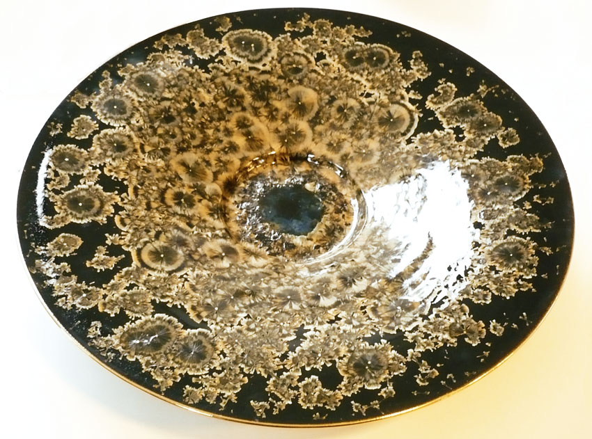 large dish by Bill Boyd, exhibited in GEES (Netherlands) in october 2009 - Silver crystals & black background on porcelain